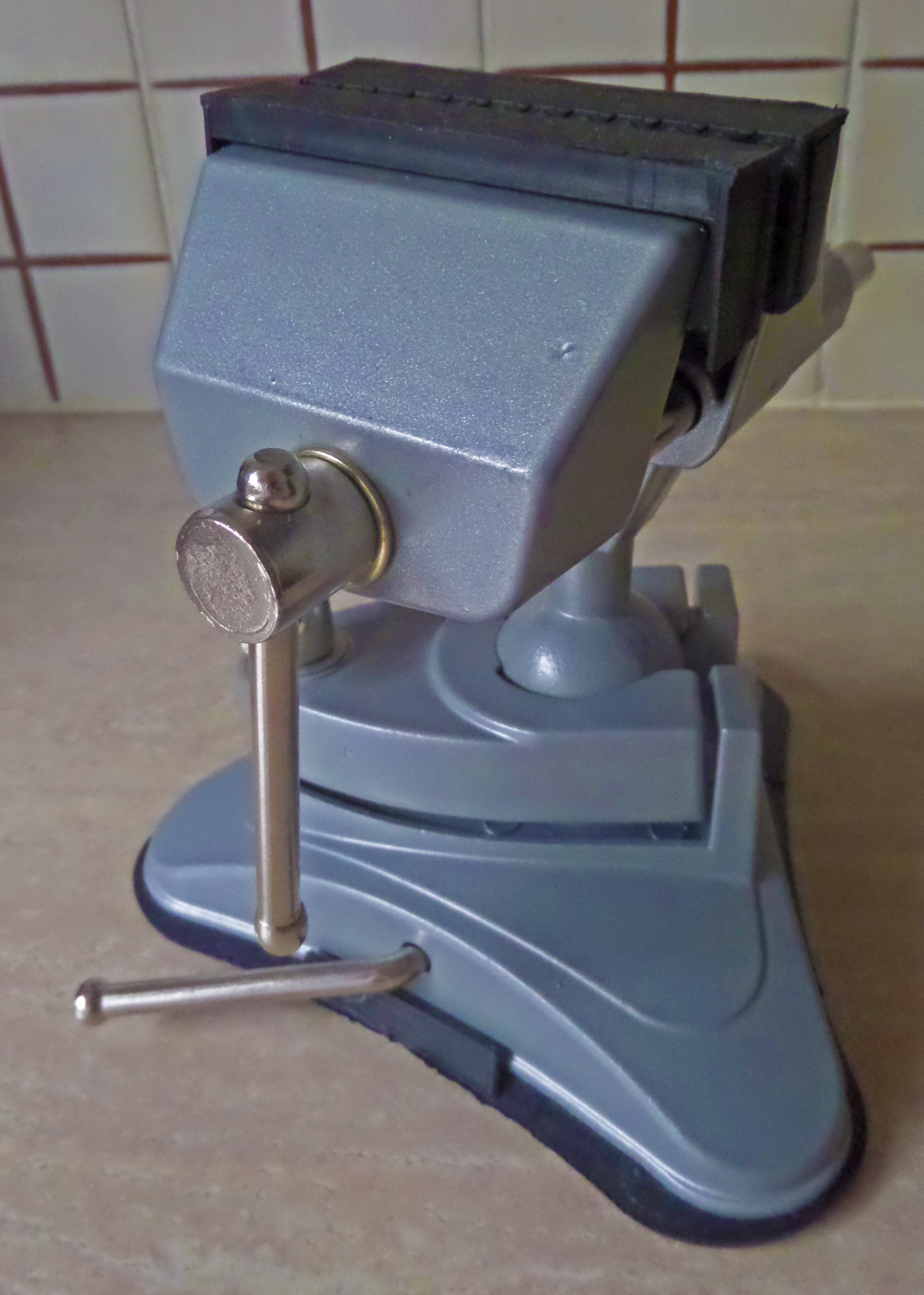 Duratech precision suction vice